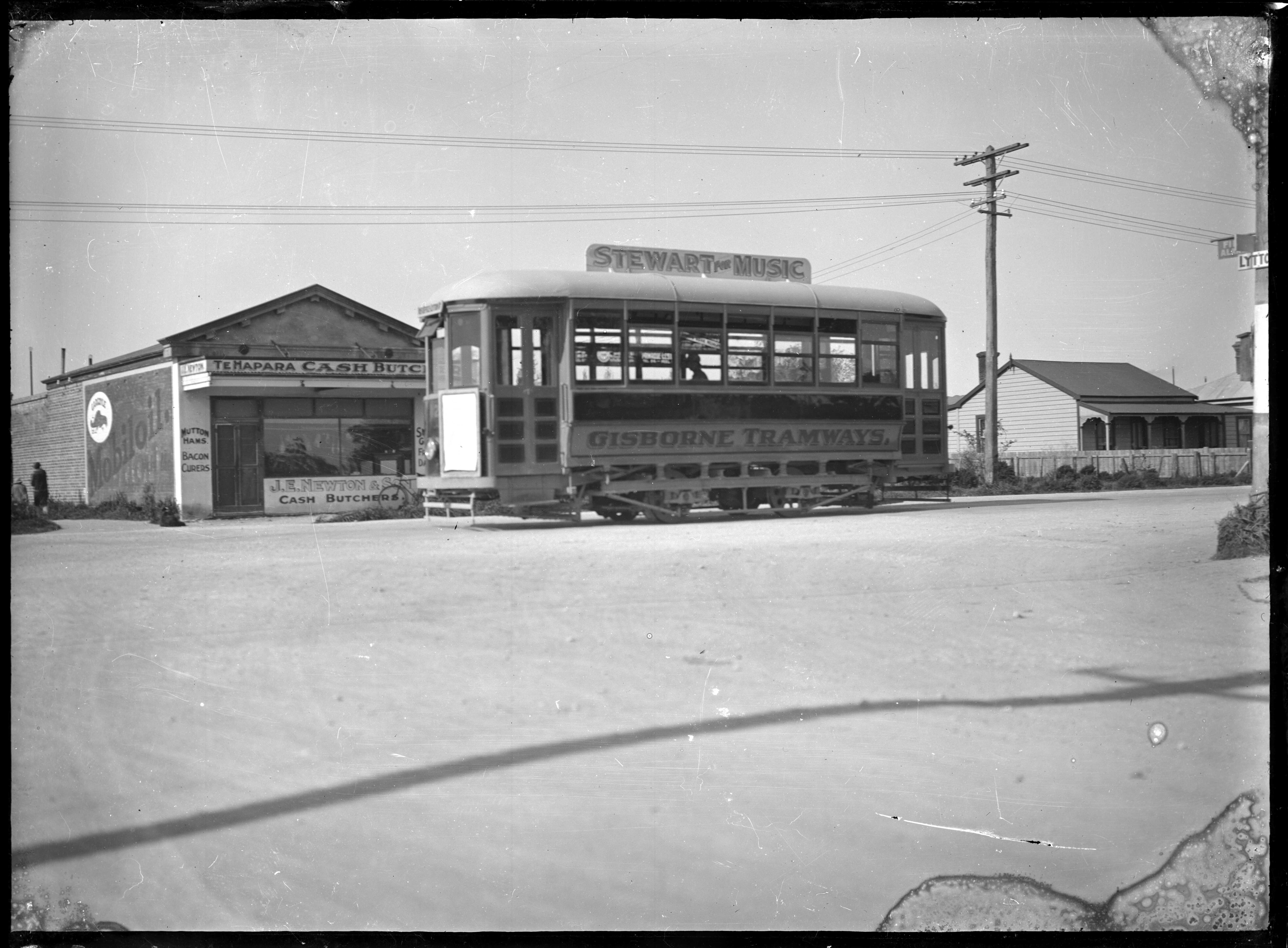 Tram run by Gisborne Tramways at the intersection of Gladstone Road and Lytton Road, Gisborne, outside J E Newton, cash butchery. Photographed by Albert Percy Godber circa 1927.